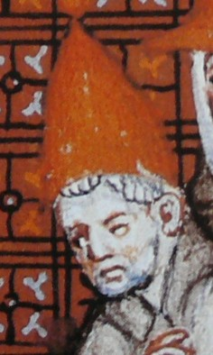 Callistus II.